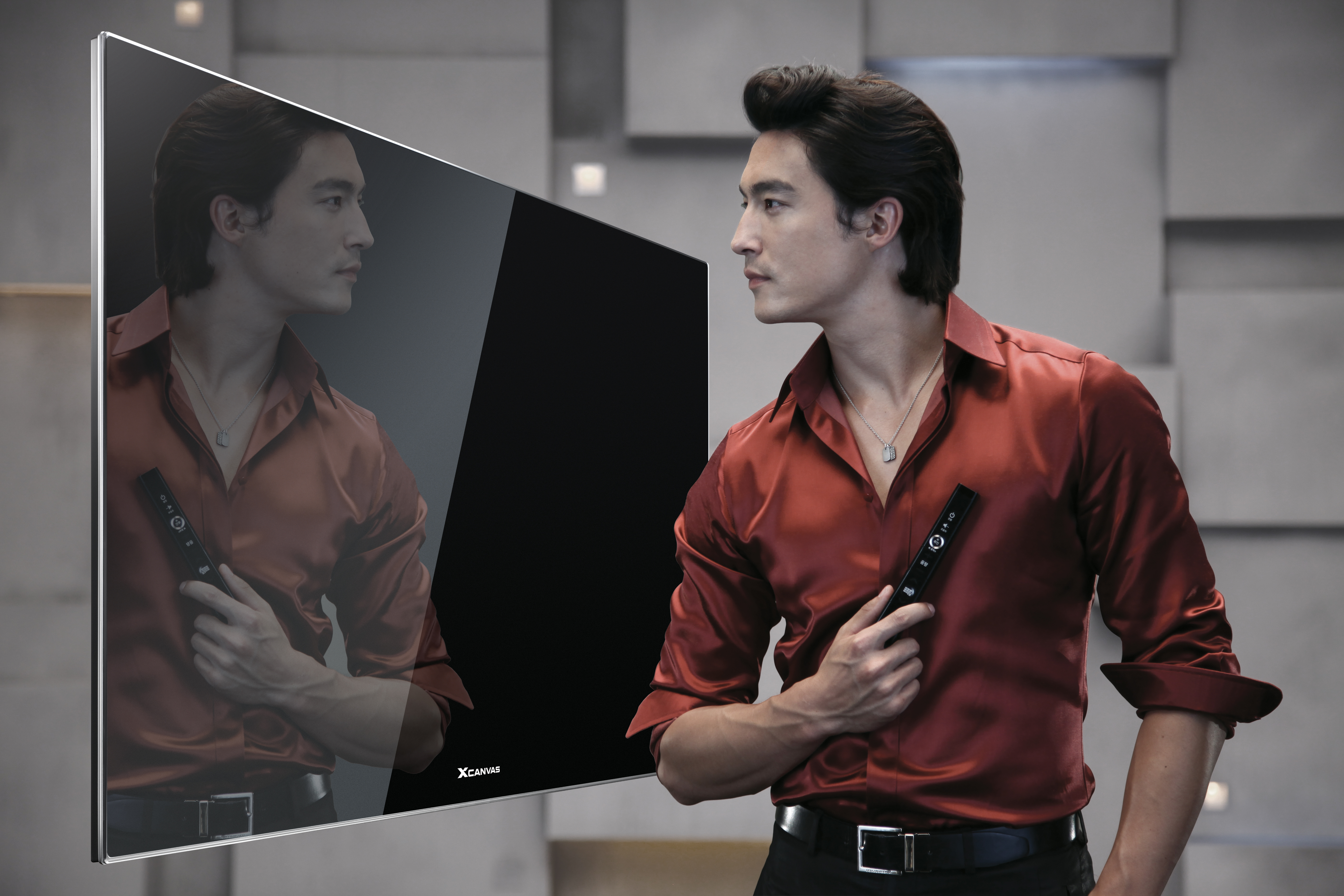 보더리스 LED TV - 다니엘헤니